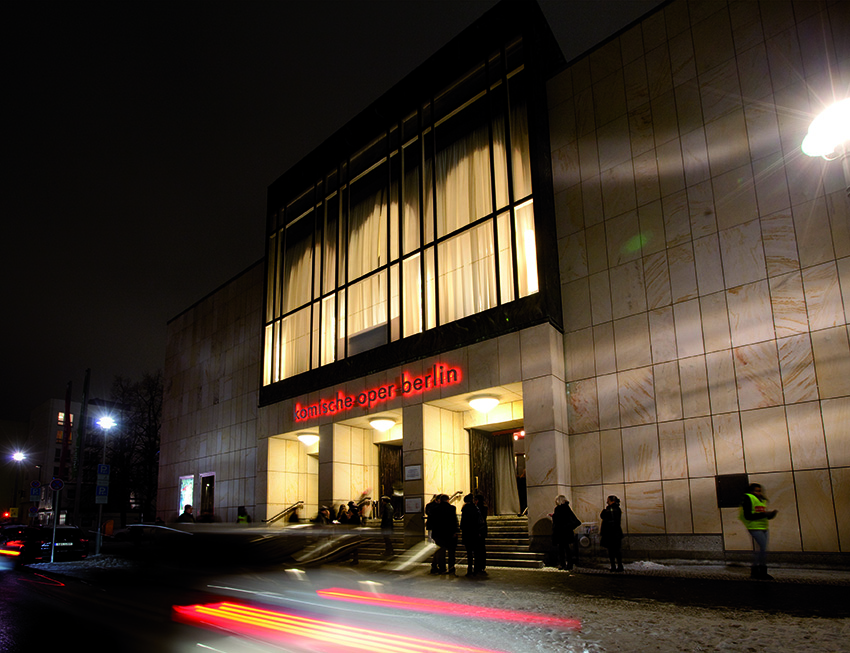 The Komische Oper on Behrenstraße in Berlin-Mitte.